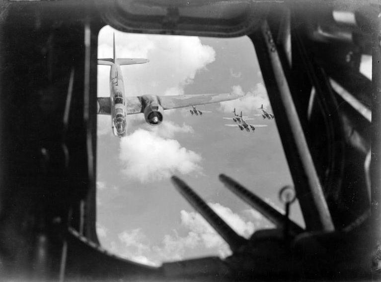 A formation of Martin Baltimores of No. 232 Wing RAF flying to attack enemy positions during the Battle of El Alamein, seen through the lower gun hatch of another aircraft.